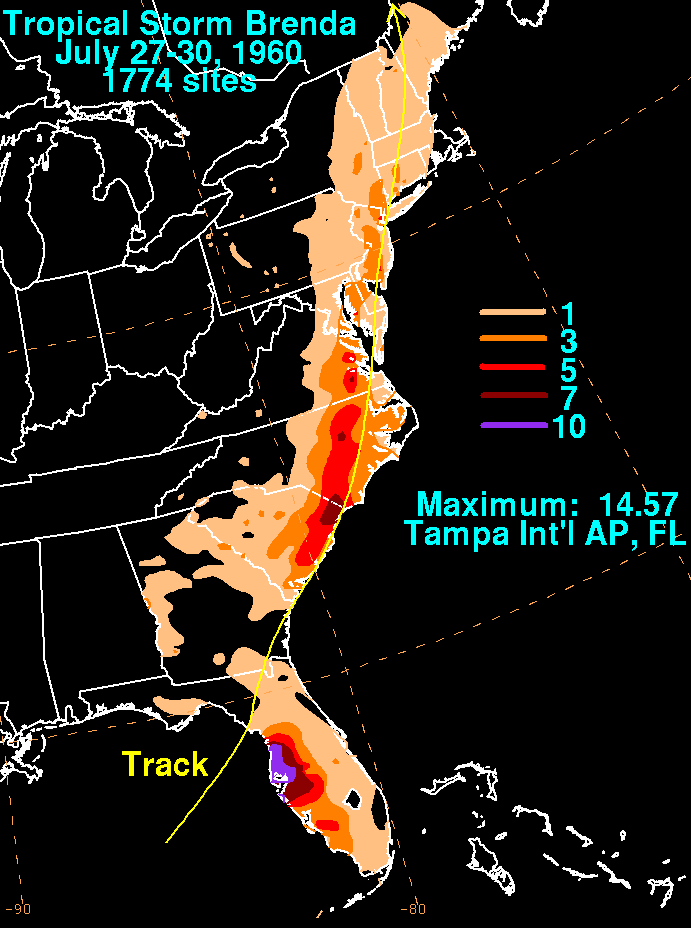 Storm total rainfall map of Tropical Storm Brenda during July 1960.